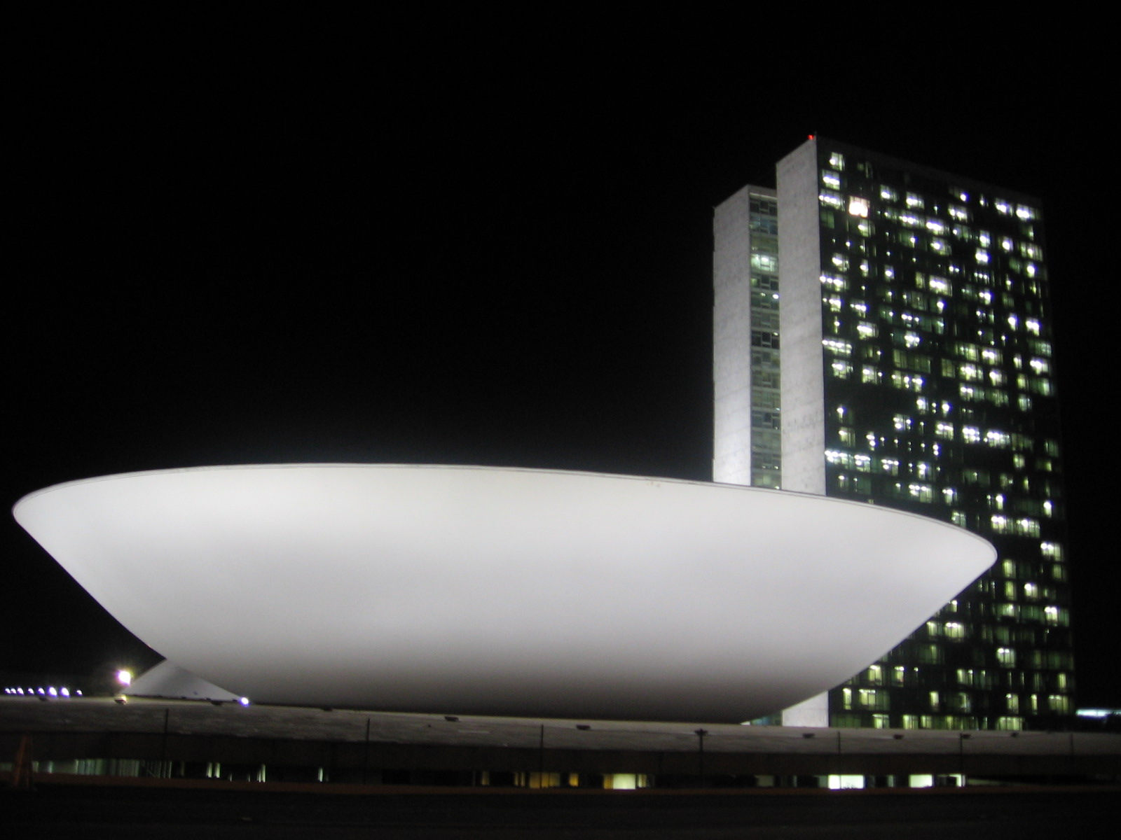 National Congress Building. Brasília, Brazil.